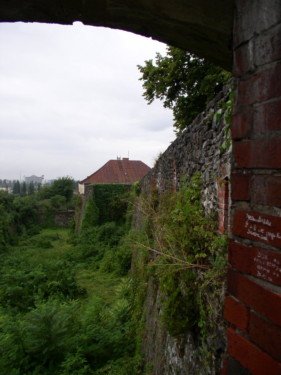 Castle. Uzhhorod, Ukraine.